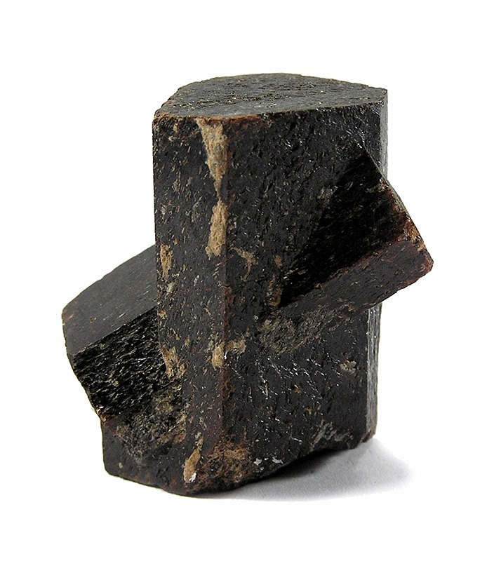 Staurolite Locality: Rubelita, Minas Gerais, Southeast Region, Brazil (Locality at ) This a a large, doubly terminated, lustrous, dark brown, ‘fairy cross”, staurolite specimen. It admittedly has some damage, but it is huge and is well formed. Rarely do you see such a well-formed and 3-dimensional example of the species 4.1 x 3.9 x 3.1 cm